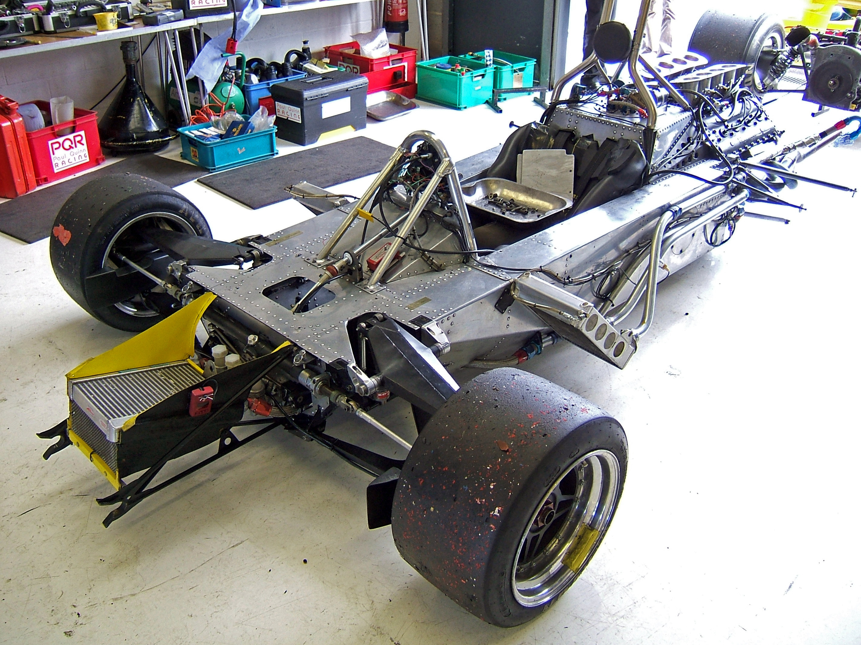 A Fittipaldi F5A, with much of its bodywork removed, in the pit garages at Silverstone Circuit, July 2007. Transaxle gearbox-wing-suspension assembly has been disconnected and sits just outside the garage doors to the rear.